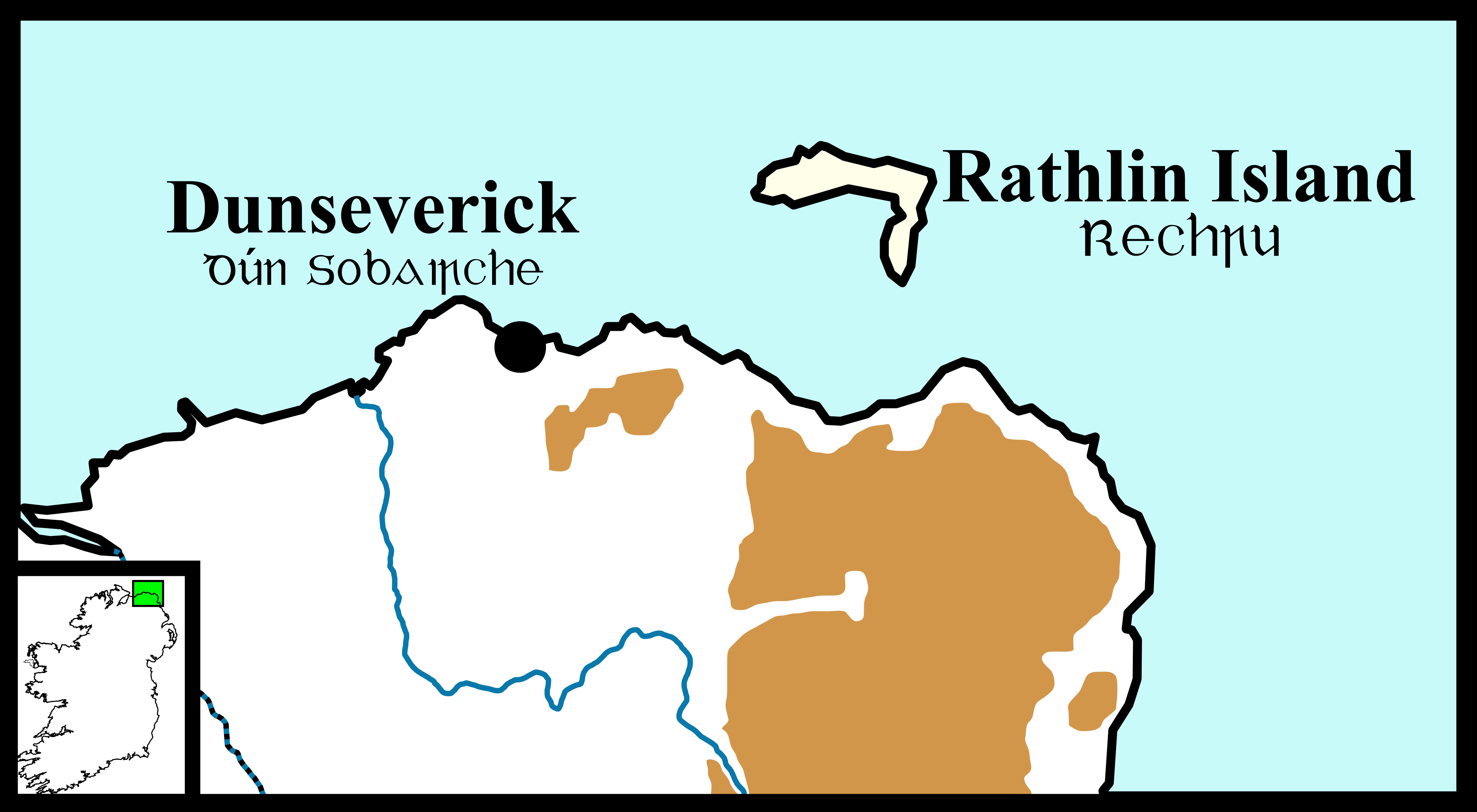 png map of Dunseverick and Rathlin Island circa 900 CE